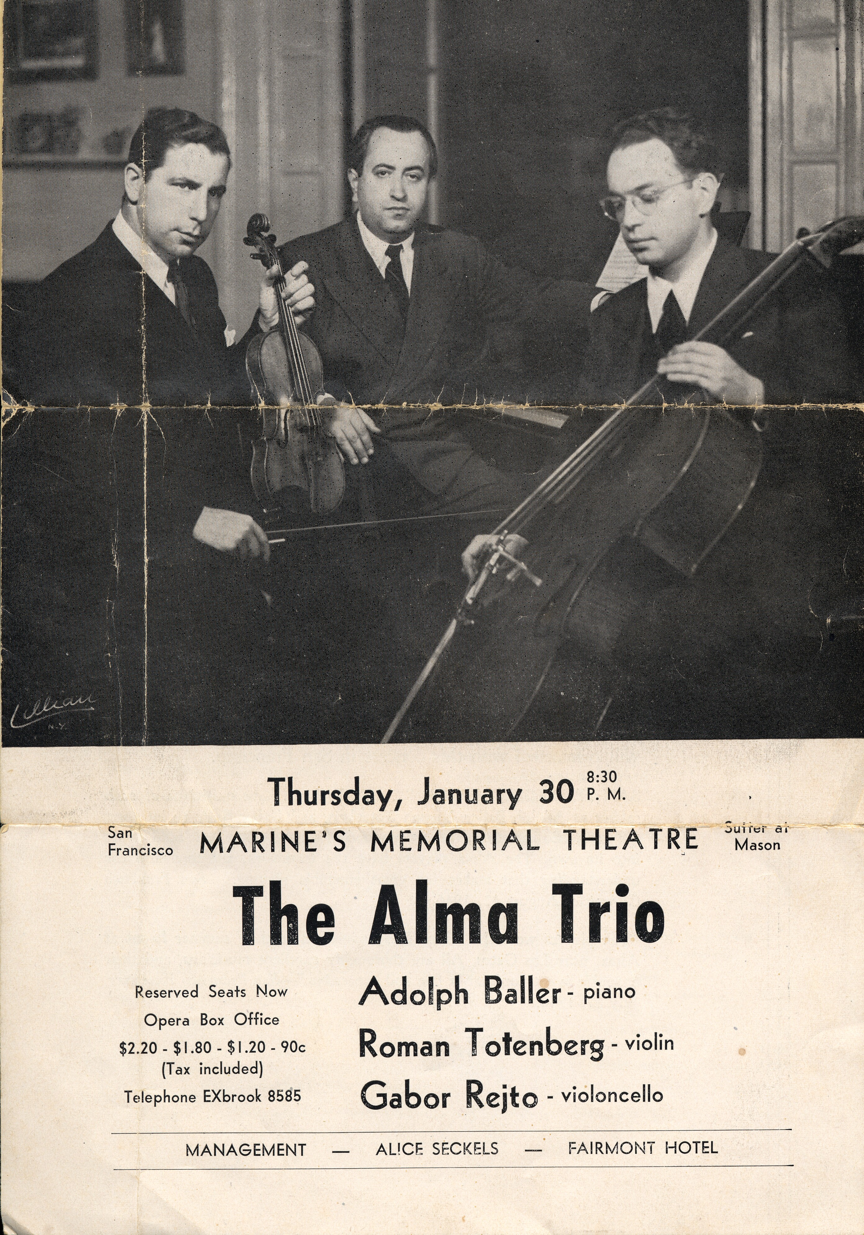 30 January 1947 concert program for the Alma Trio